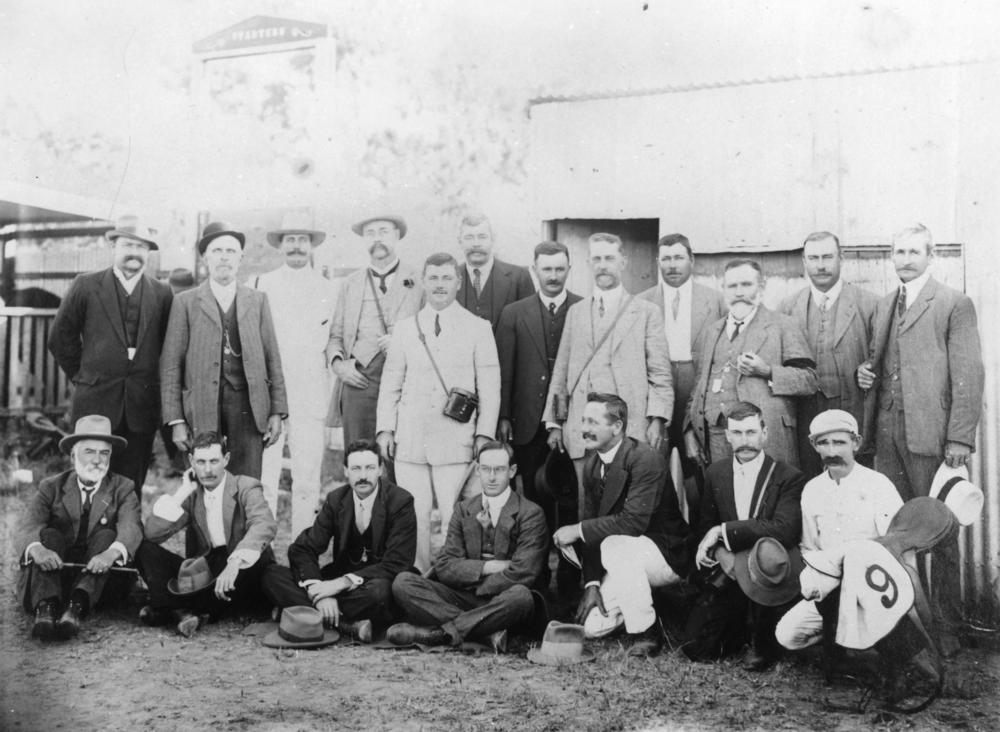 Bowen Turf Club, ca. 1910 The Bowen Turf Club including from left to right standing: W. H. Darven, D. Miller, A. H. W. Cunningham, W. H. Flemster, J. h. Blee, J. MacKensie, J. J. Fanning, W. T. Wharton, H. Roberts, Payard, J. Palmer, and J. Miller. (Description supplied with photograph).